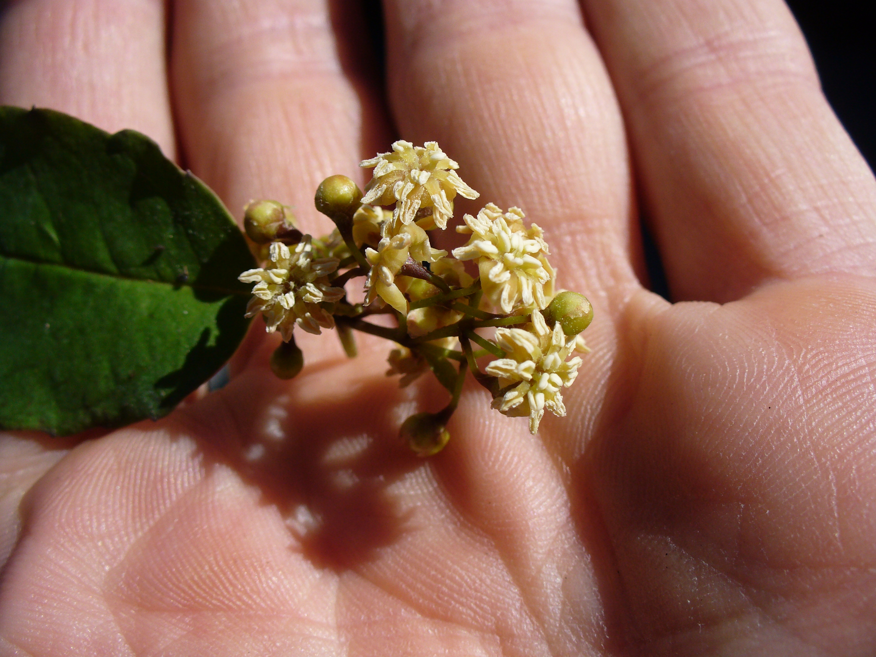 Wertheim Conservatory, Florida International University, Miami, Florida, USA.